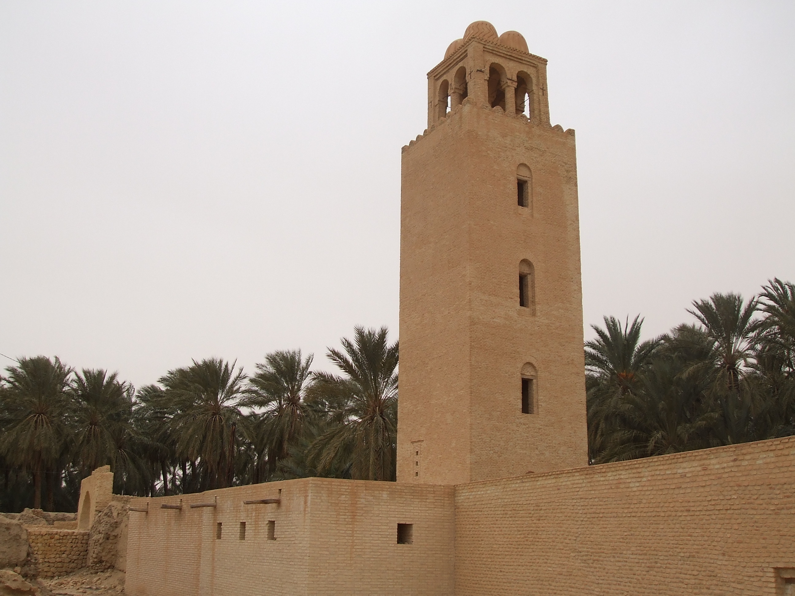 Mosque in Awlad Majid village (أولاد ماجد - Ouled Majed), in Dagash (دقاش - Degache), Tuzar (توزر - Tozeur), Tunisia - 33° 59' 43.61" N, 8° 14' 33.42" E